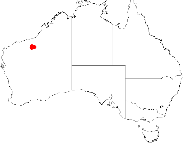 Acacia aphanoclada Occurrence data from Australasia Virtual Herbarium downloaded from on 8 December 2018